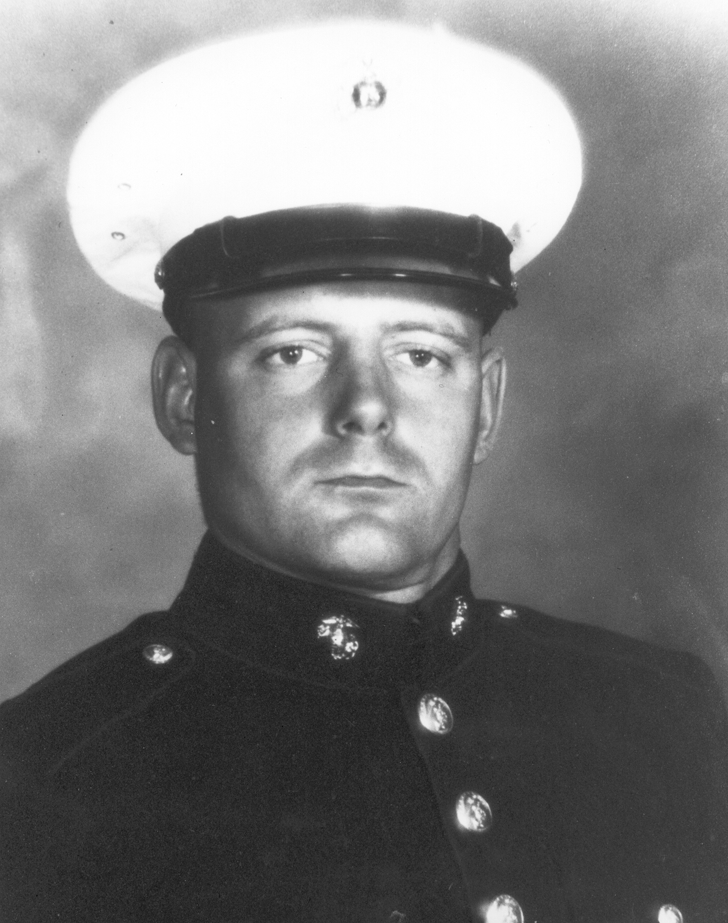 Jedh C. Barker, USMC, was a Vietnam War Medal of Honor recipient; image from official Marine Corps biography Source: Official Marine Corps biography and photo URL: Author: United States Marine Corps